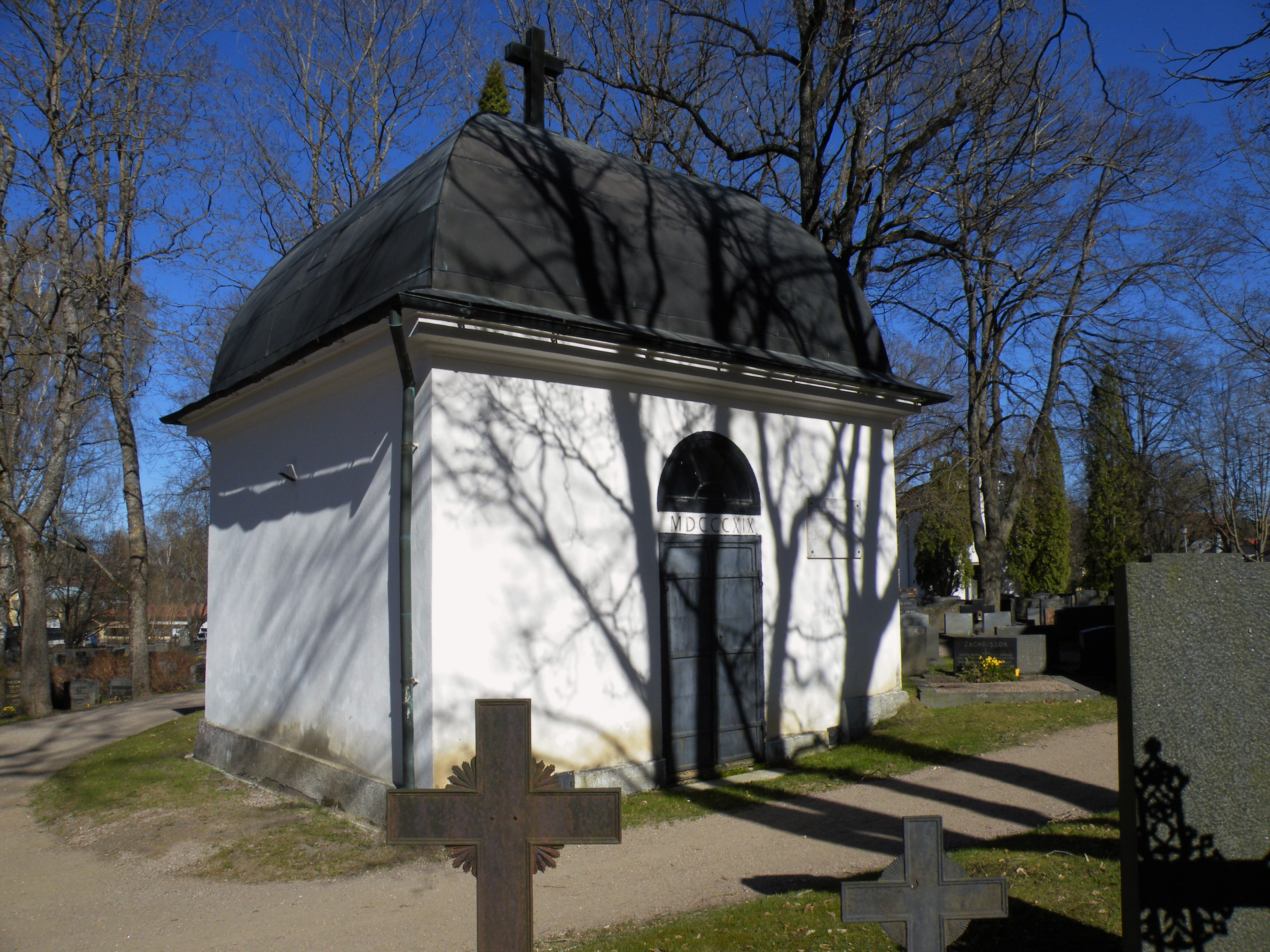 The grave of the Jakob Tengström, who was the first archbishop in Finland. The grave is next to Lutheran Church of Parainen.